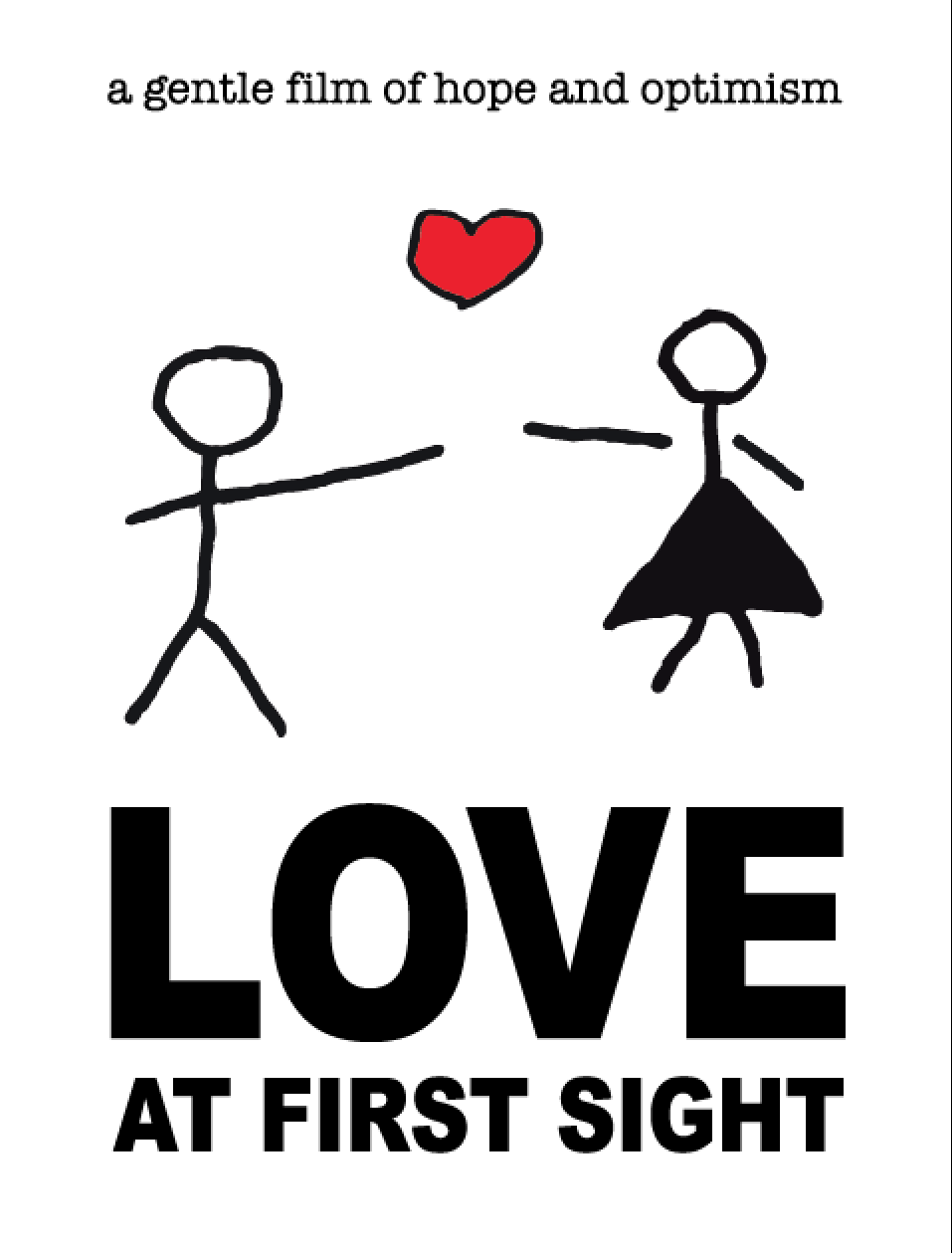 Love at First Sight is a multi-award winning British short film